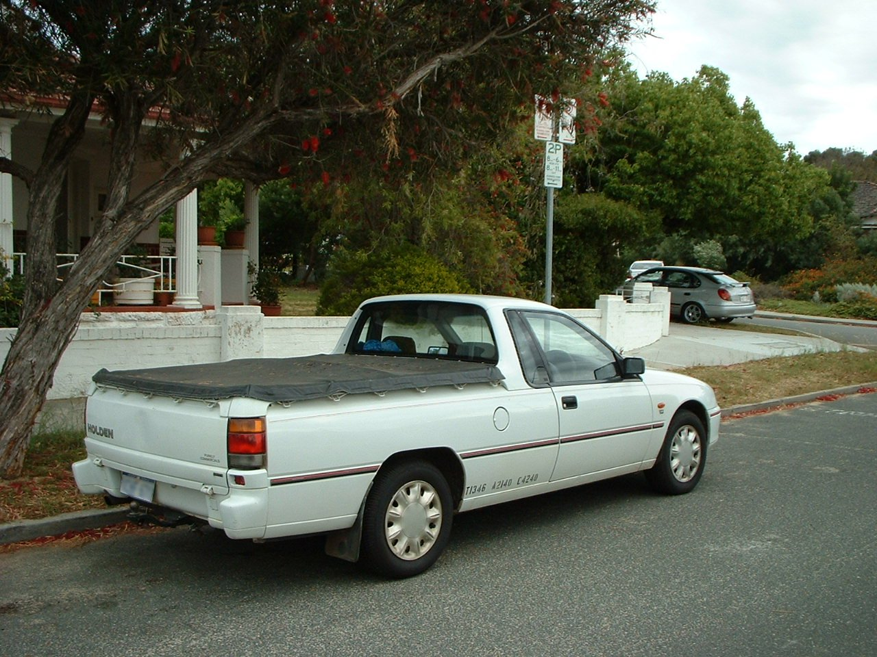 1996–1998 Holden VS II Commodore utility.